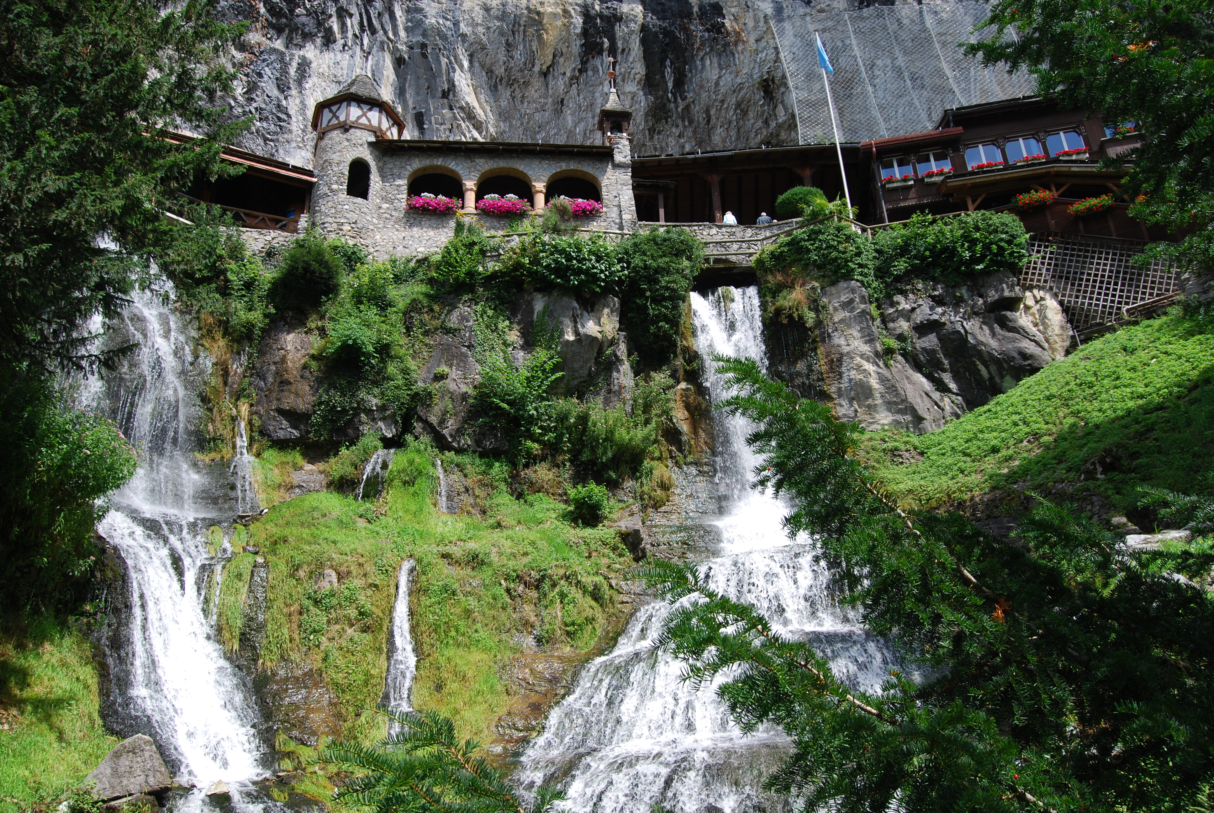 Waterfall beyond the Saint Beatus Caves, municipality of Beatenberg, canton of Bern, Switzerland